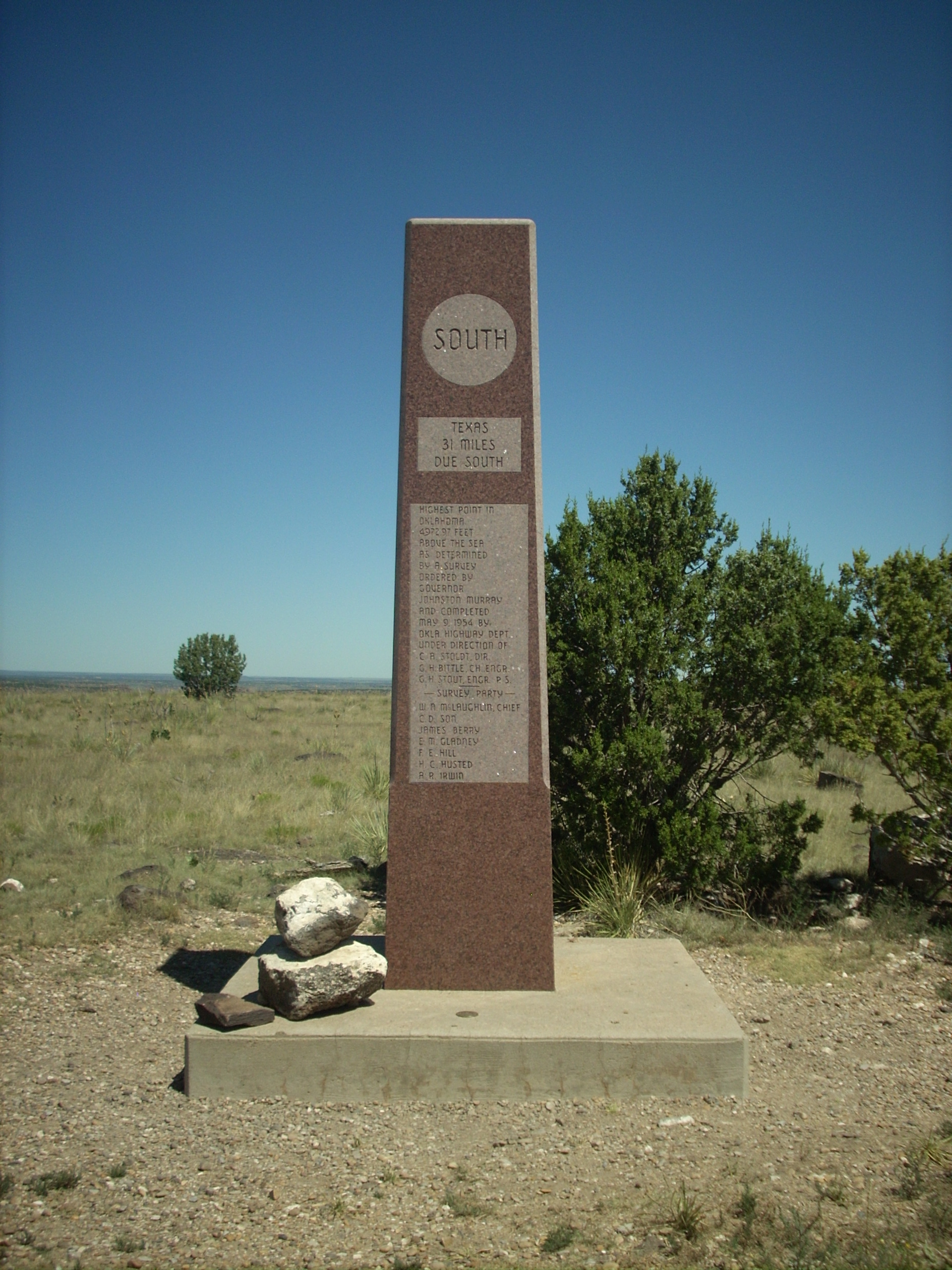 The summit of Black Mesa